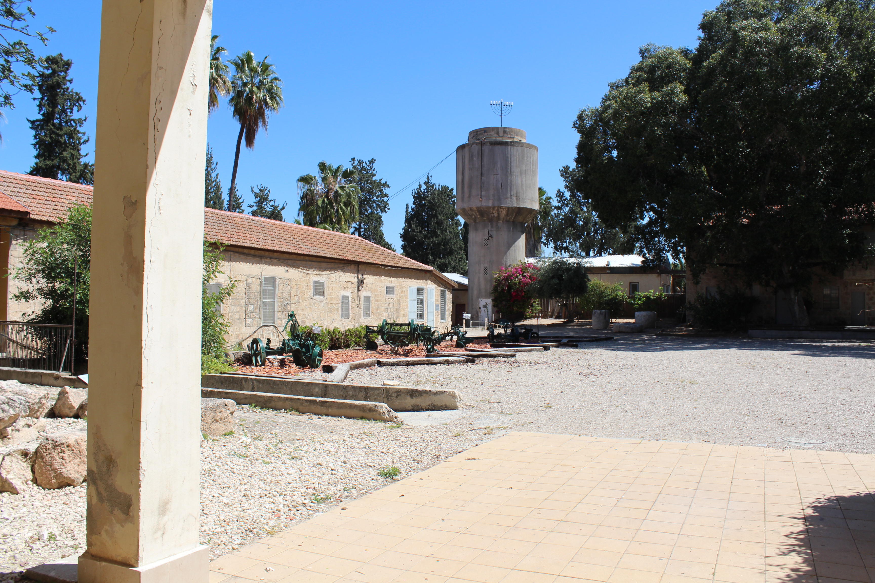 The Central Courtyard, Ben Shemen Youth Village, Israel This image was taken as part of the Elef Millim project trip to the Ben Shemen Youth Village in central Israel which was held on Friday, 11th April 2014. To view all images uploaded as part of the Elef Millim Project